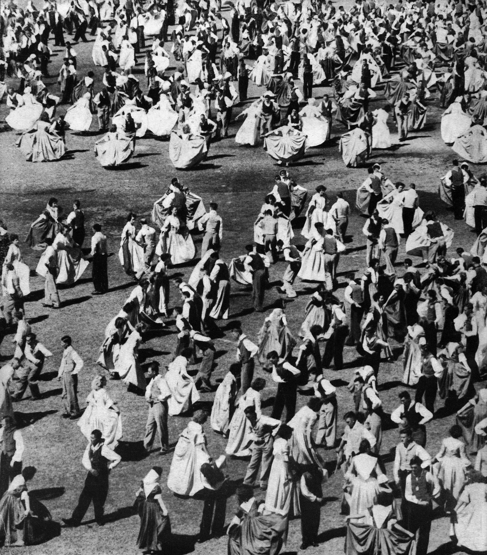 Mass demonstration by 3000 Volkspelers during the Van Riebeeck Festival in 1952, Cape Town